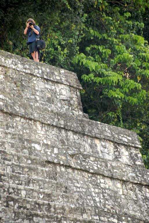 Victor Diaz Lamich, Canadian photographer